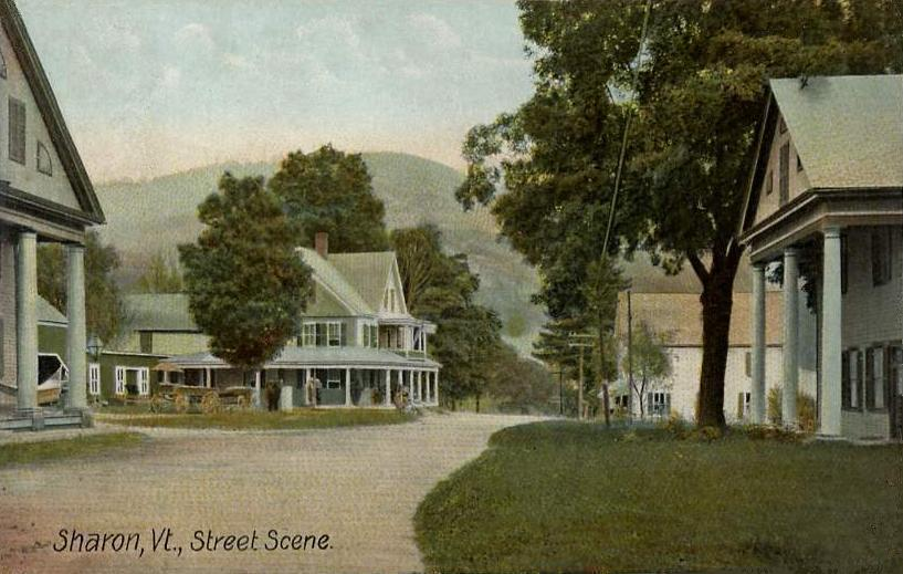 Street scene, Sharon, Vermont; from a c. 1906 postcard published by the Hugh C. Leighton Company, Portland, Maine.